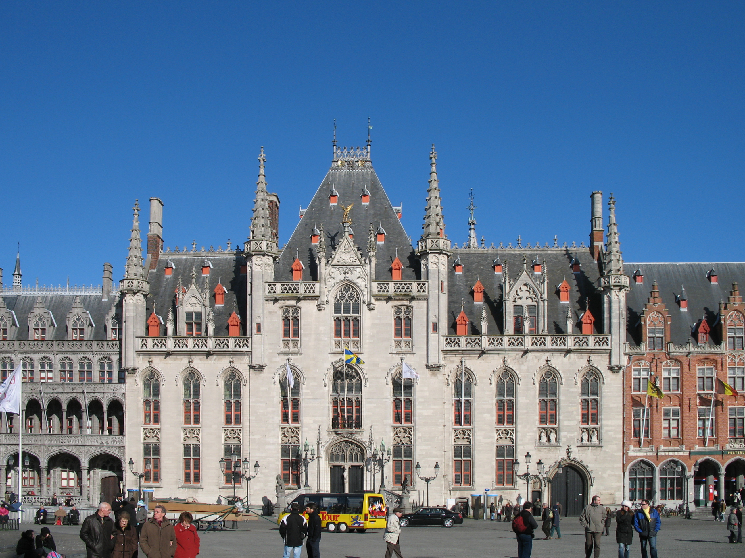 Bruges, Belgium: the 'Provinciaal Hof' at the Market Place, built in 'gothic revival style' in 1881-1921